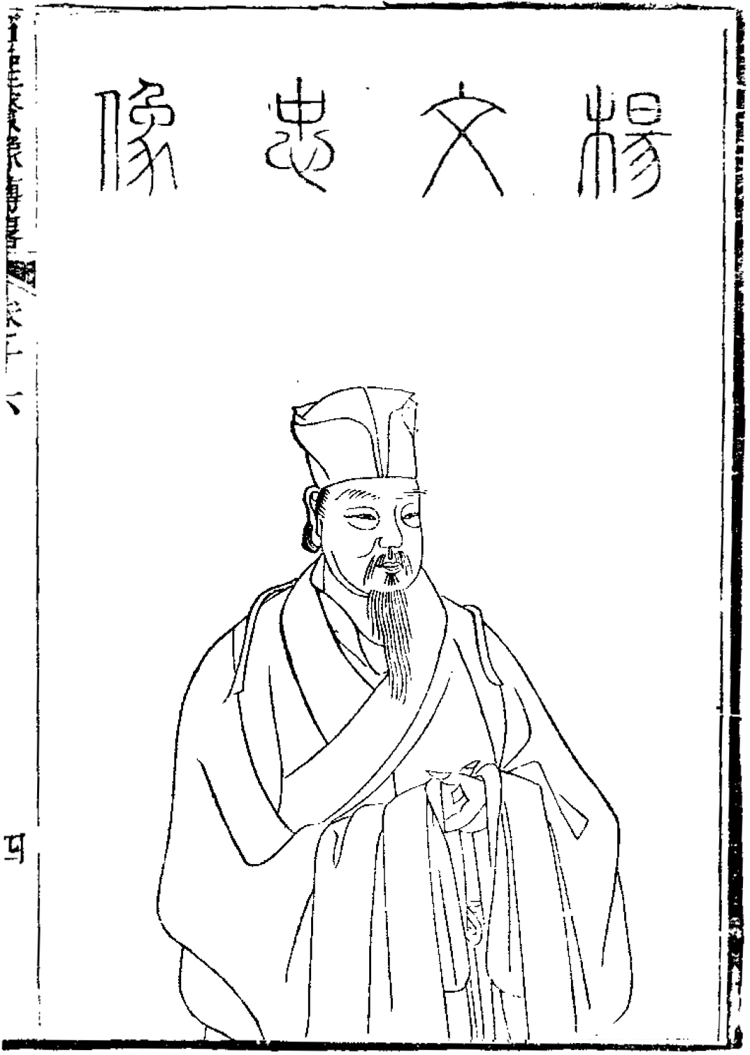 Yang Tinghe, politician of the Ming Dynasty.